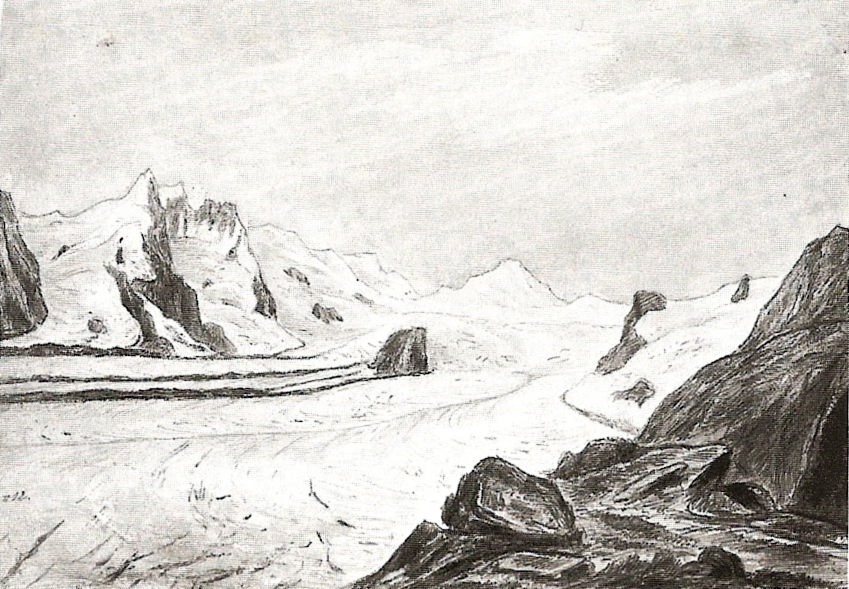 Großglockner by brothers Schlagintweit